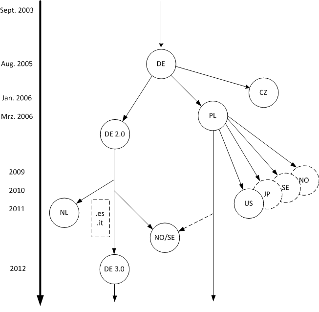 Code forks of the Opencaching source code by release date